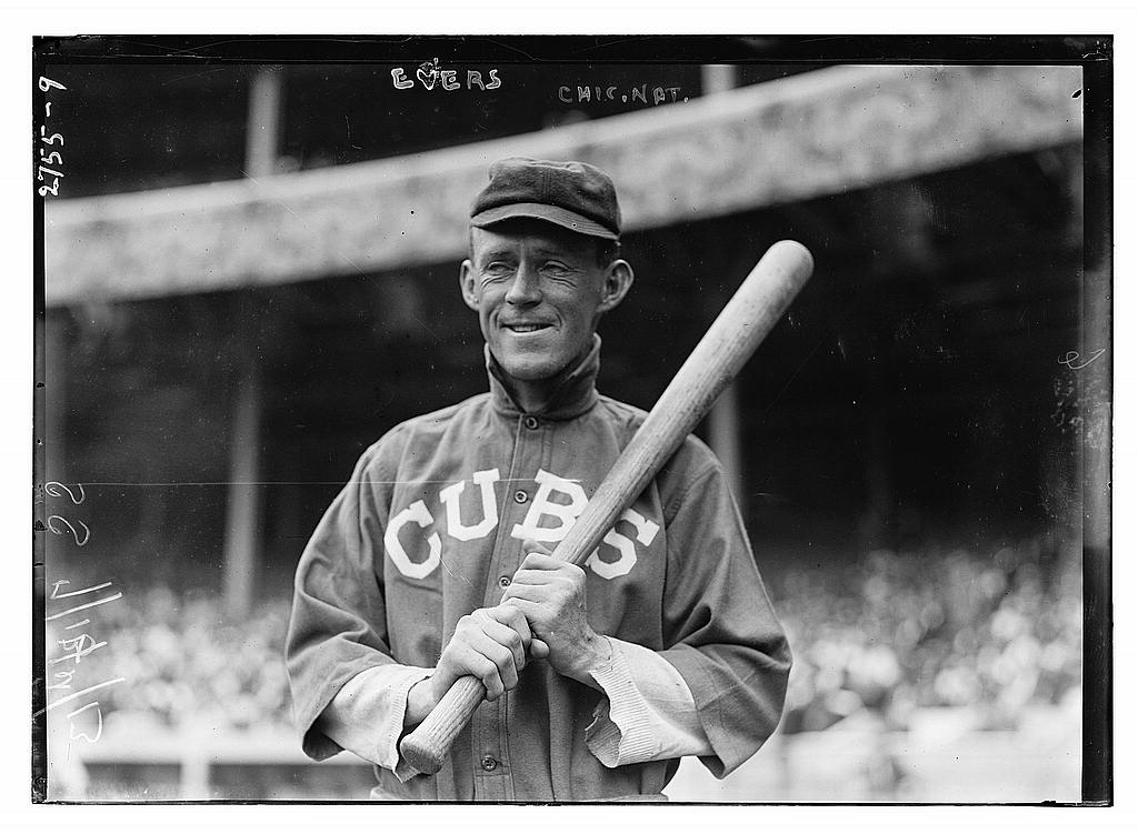 Bain News Service,, publisher. [Johnny Evers, Chicago NL, at Polo Grounds, NY (baseball)] 1913 July 16. 1 negative : glass ; 5 x 7 in. or smaller. Notes: Original data provided by the Bain News Service on the negatives or caption cards: Evers [Cubs], 7/16/13.. Corrected title and date based on research by the Pictorial History Committee, Society for American Baseball Research, 2006. Forms part of: George Grantham Bain Collection (Library of Congress). Format: Glass negatives. Repository: Library of Congress, Prints and Photographs Division, Washington, D.C. 20540 USA, General information about the Bain Collection is available at Higher resolution image is available (Persistent URL): Call Number: LC-B2- 2755-9